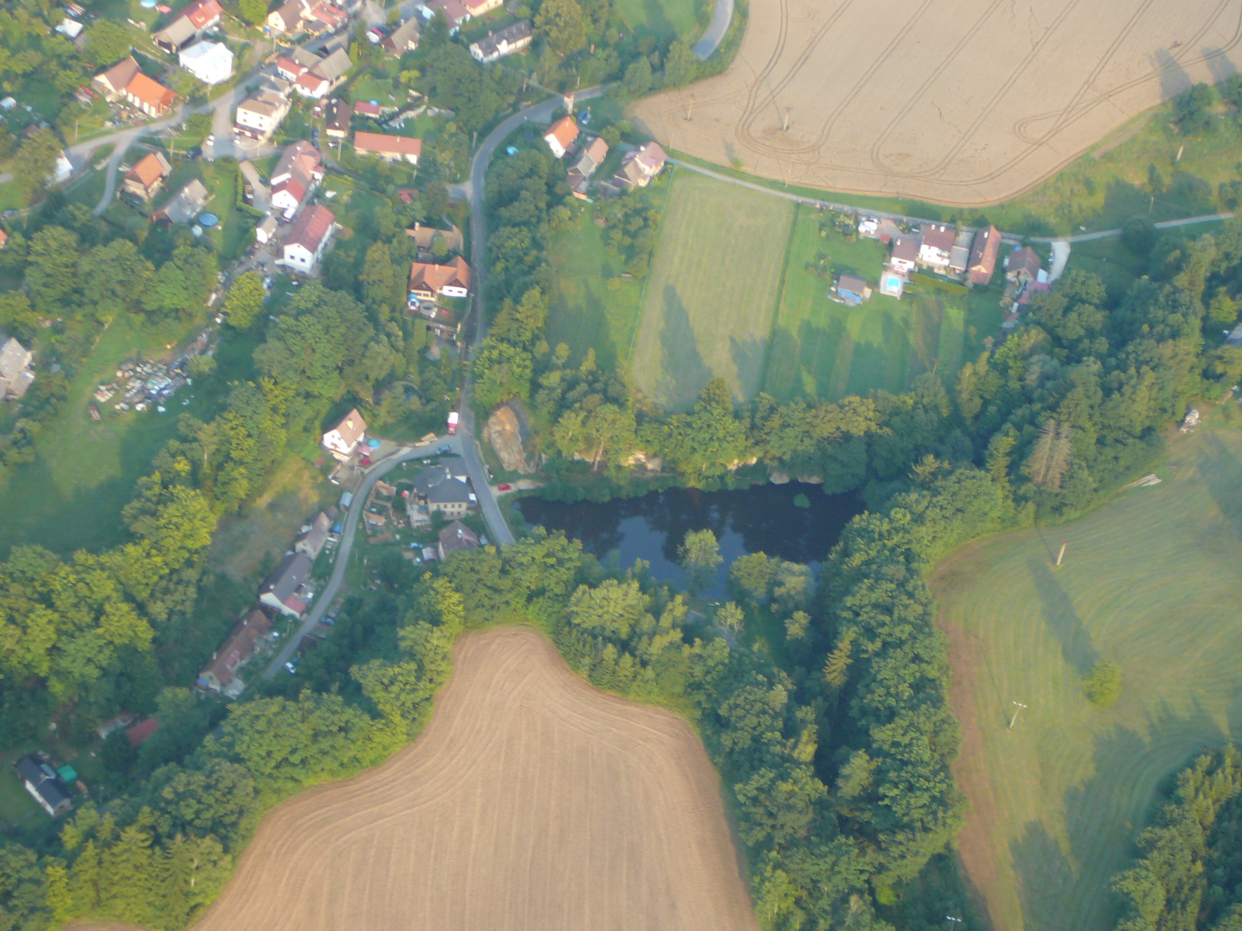 view from the balloon to the village Roveň(pohled z balonu na vesničku Roveň